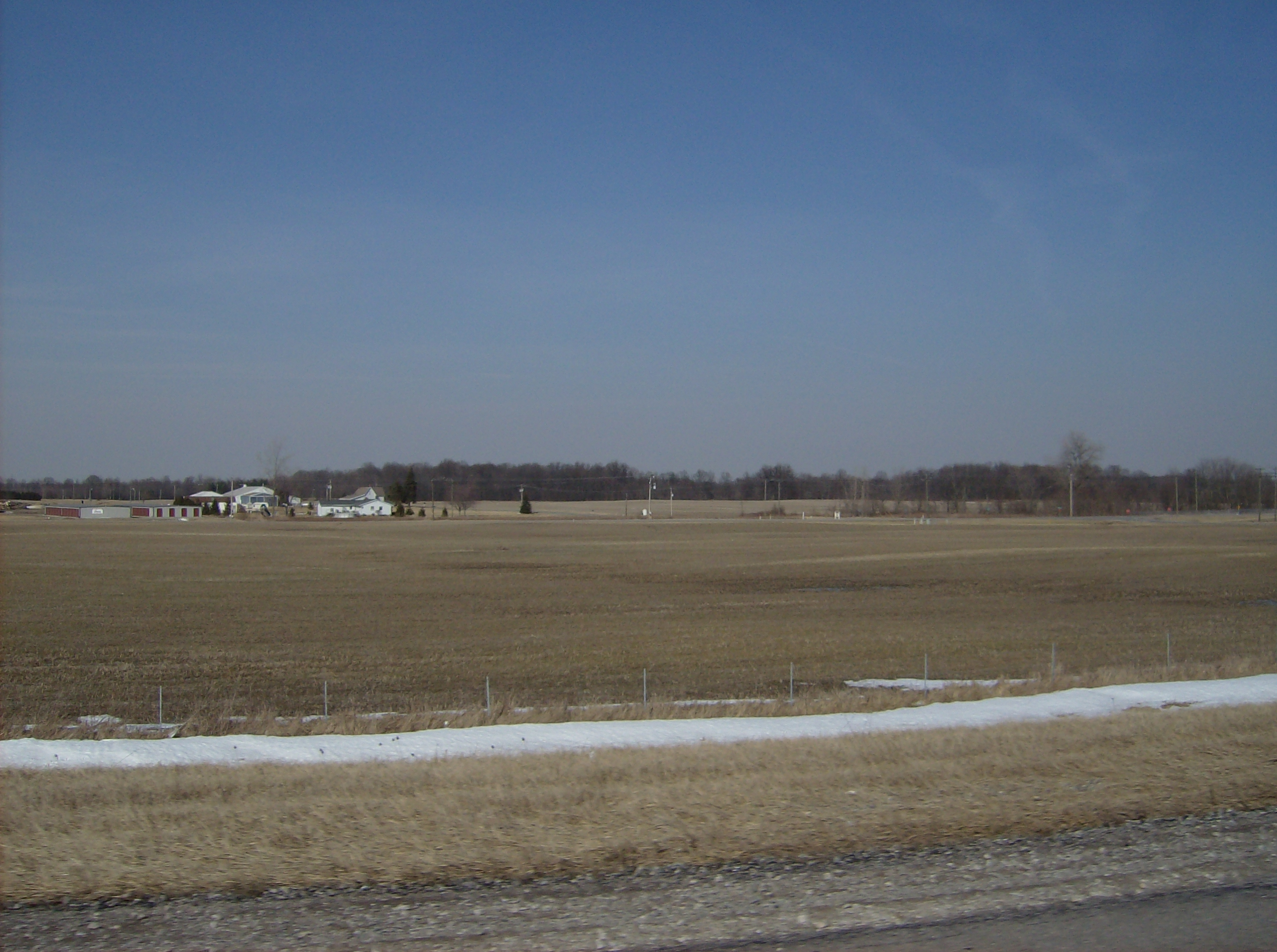 Farmland in Paris Township, Union County, Ohio, United States, from U.S. Route 33.